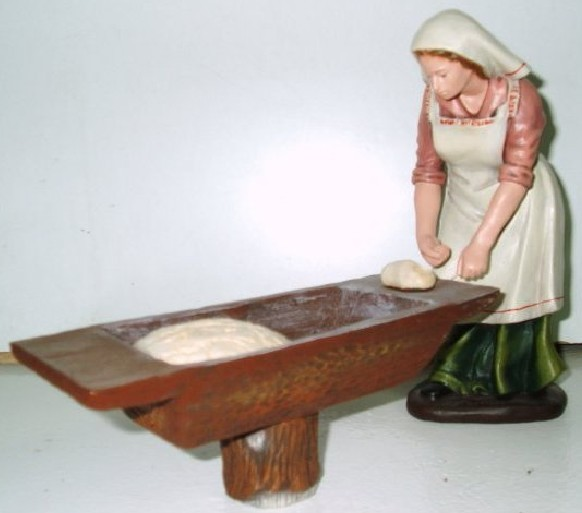 Bethlehem (birth of Christ) clay figures traditional